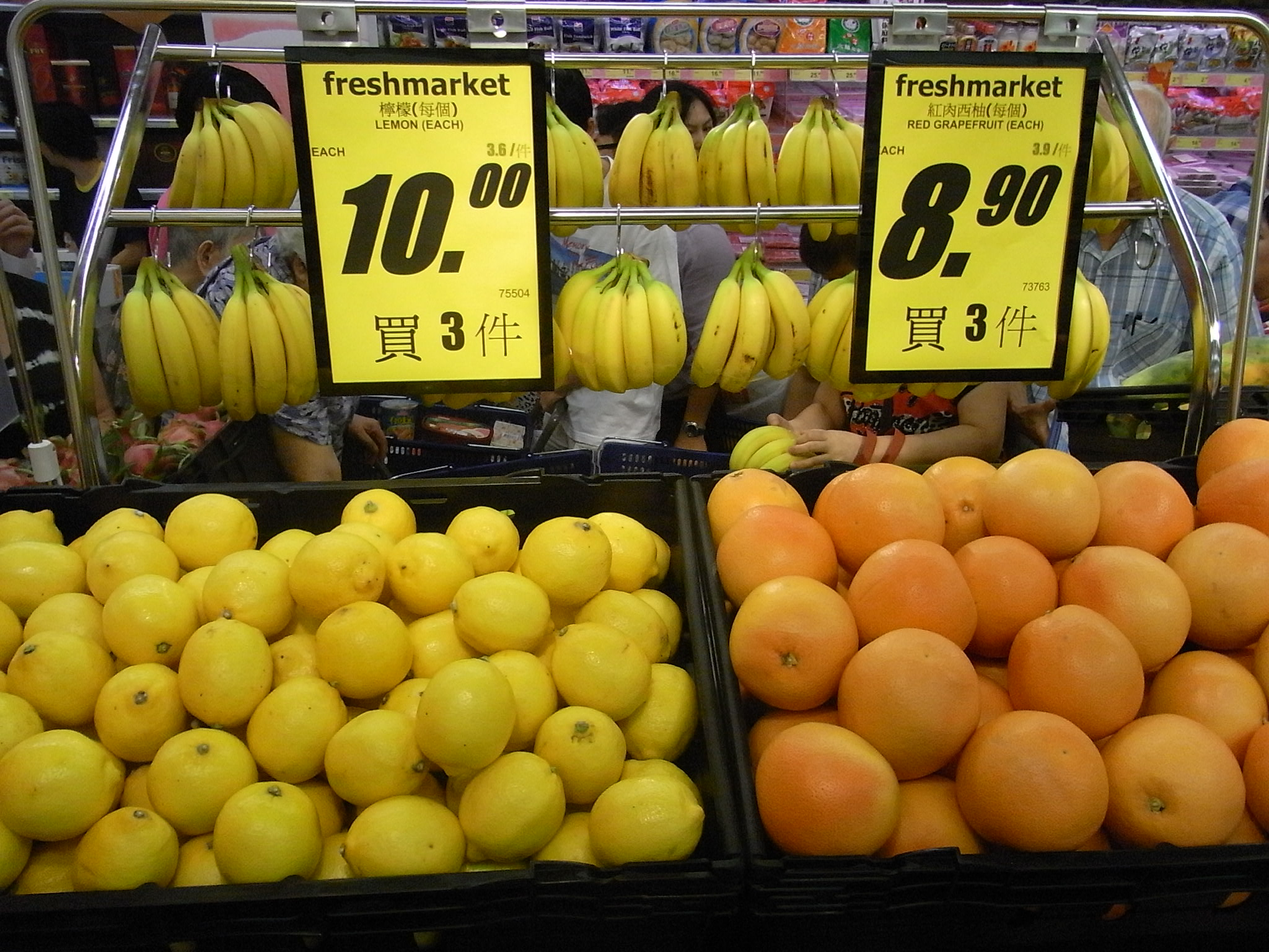 Grand Opening of Park'n Shop at Kiu Fat Building, 119 Queen's Road West, Sheung Wan, Hong Kong